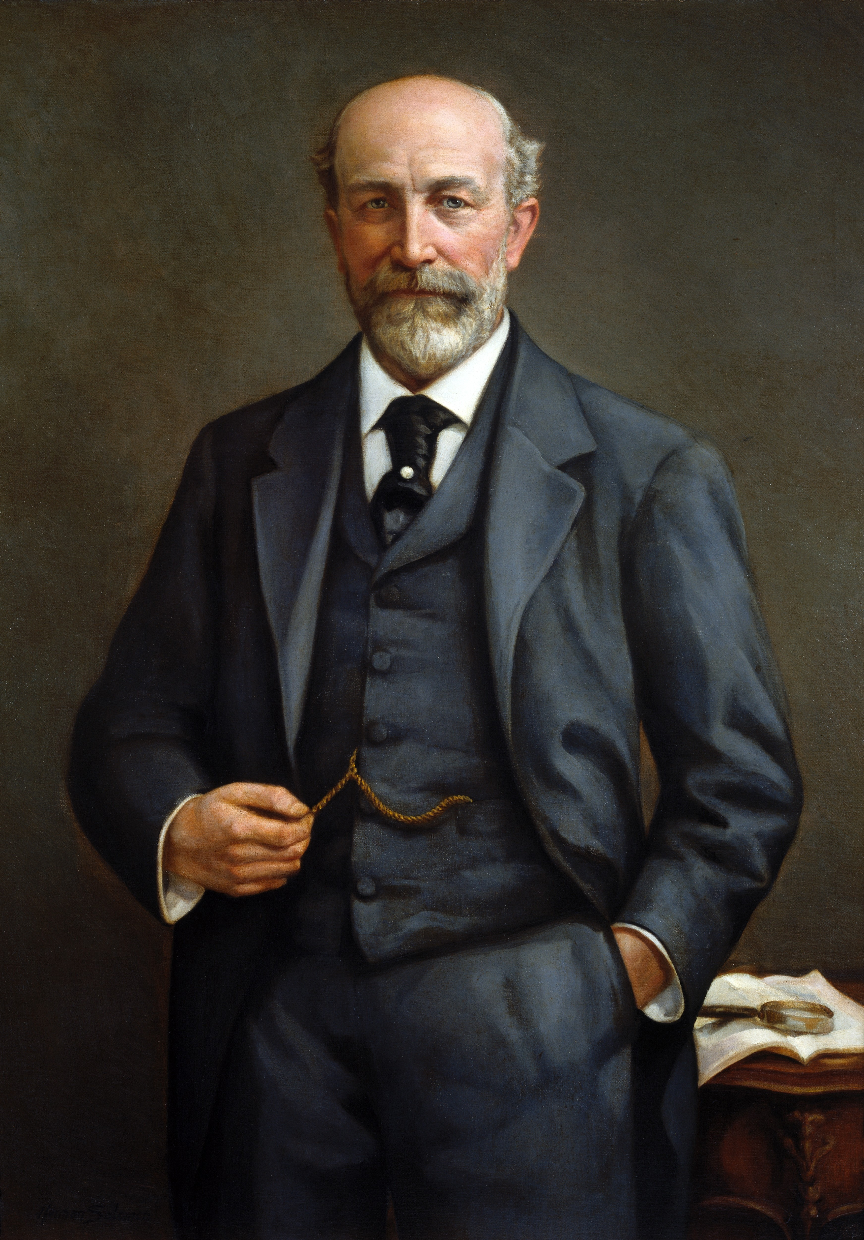 Portrait of Sir James Cantlie. 3/4 length, standing. after cleaning, with frame.